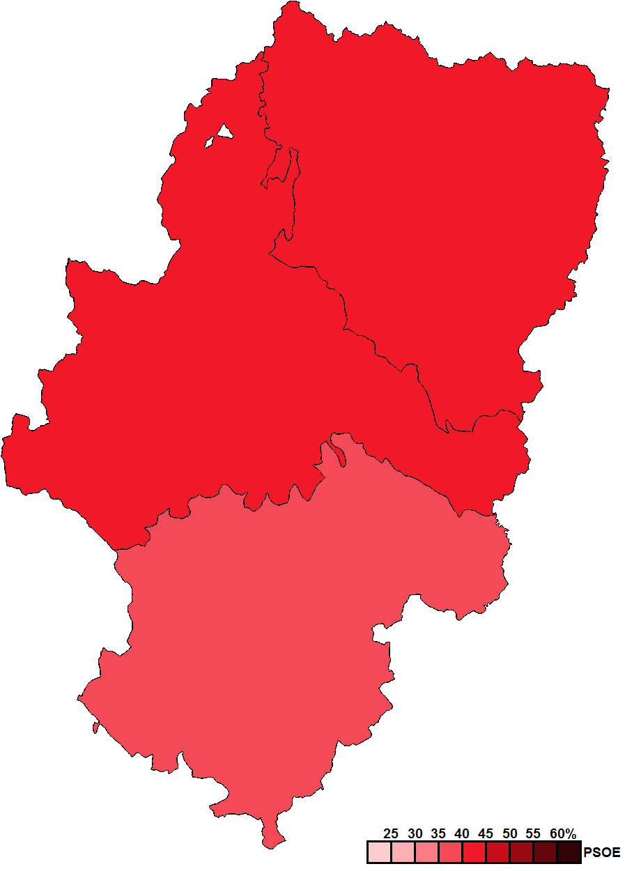 Provincial results for the 2007 Aragonese regional election.